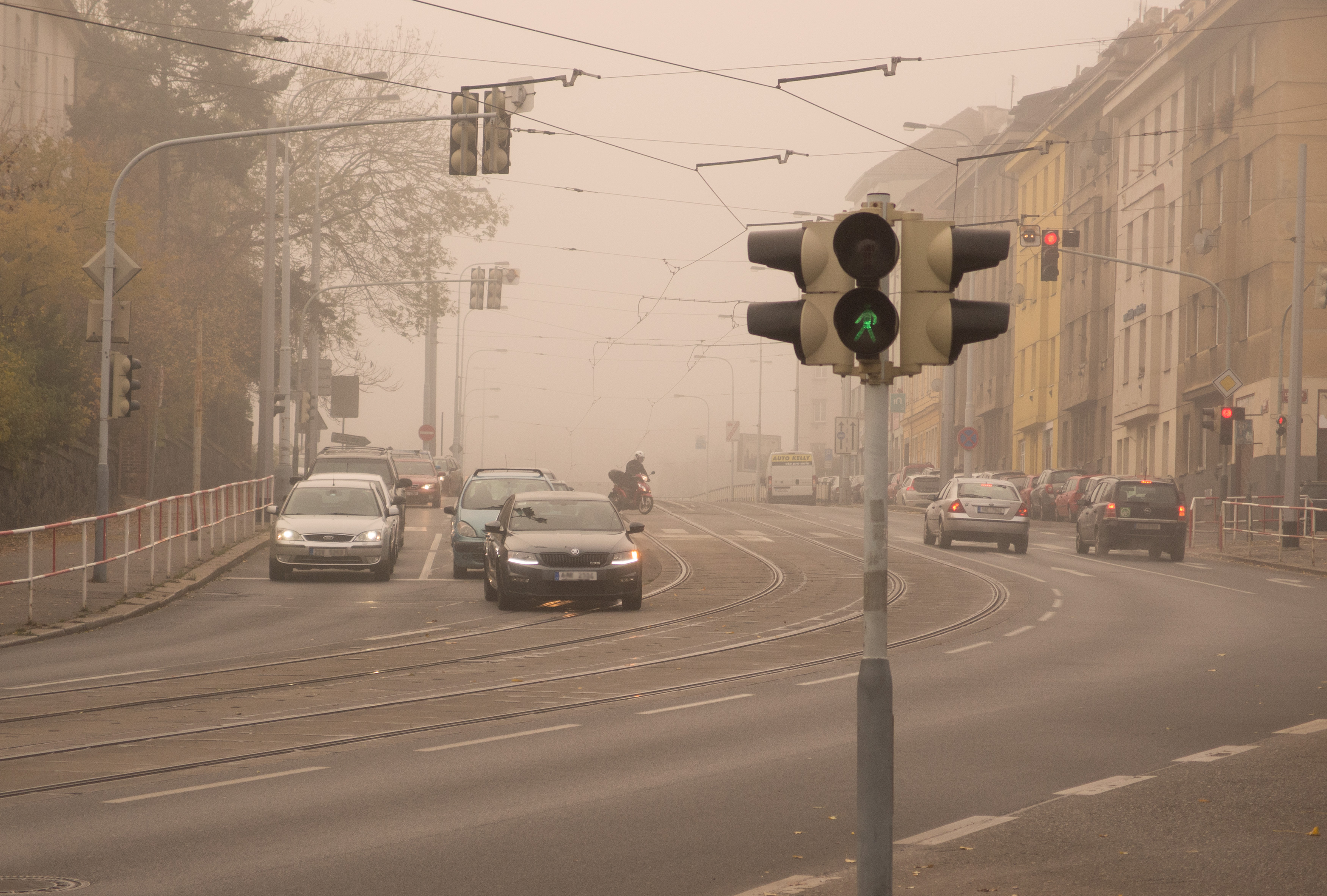 Free stock image of urban smog. Foggy wather in Prague (Táborská street in Nusle), Czech republic.